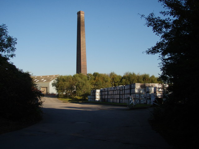 Baggeridge Brick Works (Gospel End) Sedgley 4.30 pm Friday 5th October 2007. Entrance to brickworks.